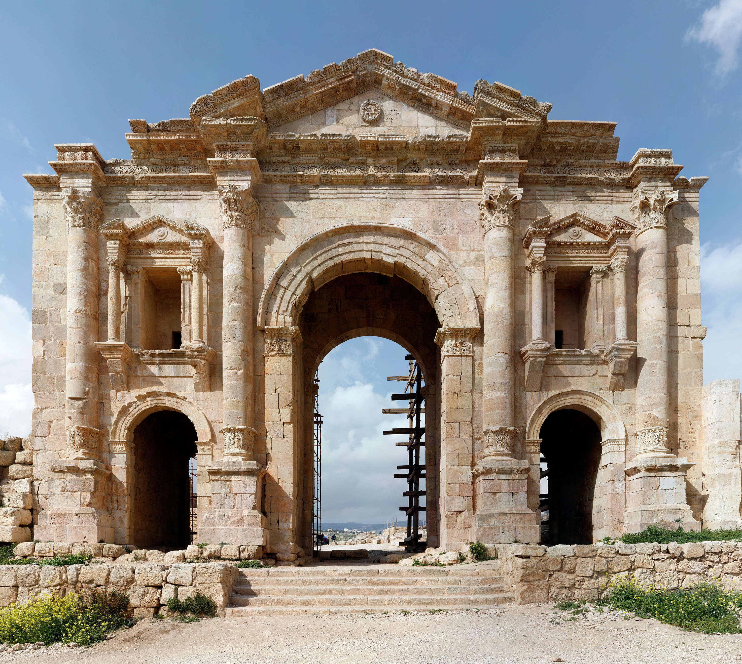 The Triumphal Arch (Hadrian's Arch) in the south of the Roman city of Gerasa (now Jerash) in Jordan. The tripartite triumphal arch was erected in commemoration of emperor Hadrian's visit to the city in 129/130 AD. The building is 25 m wide and ca. 21.5 m high. The main entrance is 6 m wide and 11 m high, while the side entrances are 2.5 m wide and 5 m high. The upper part above the peak of the main arch has been practically completely restored by the Department of Antiquities of Jordan by reusing the ancient ashlar around the arch (Source: Franz Rainer Scheck: Jordanien. Völker und Kulturen zwischen Jordan und Rotem Meer, DuMont Kunstreiseführer, Köln 1997, ISBN 3-7701-3979-8, p.163f.).